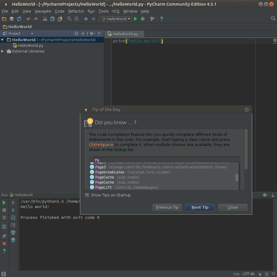 A screenshot of PyCharm 4.5.1 running under Ubuntu MATE